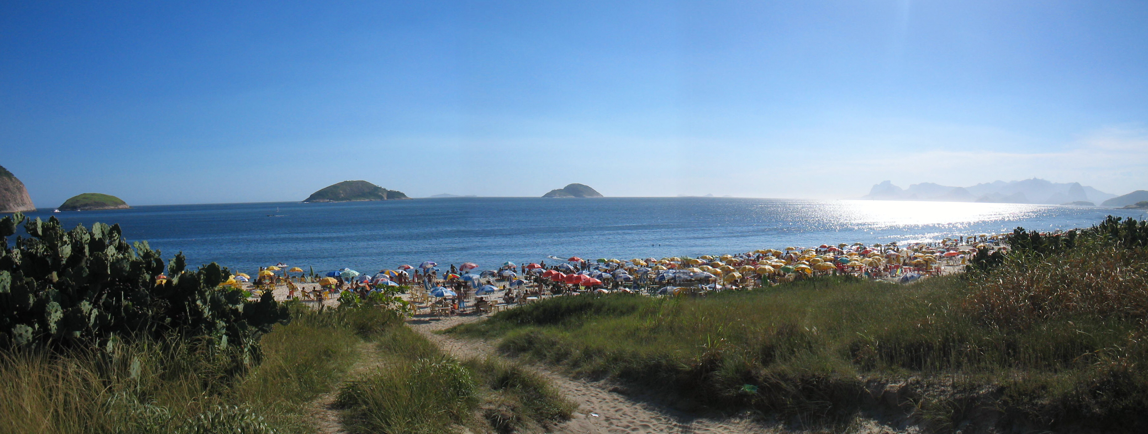 CAMBOINHAS